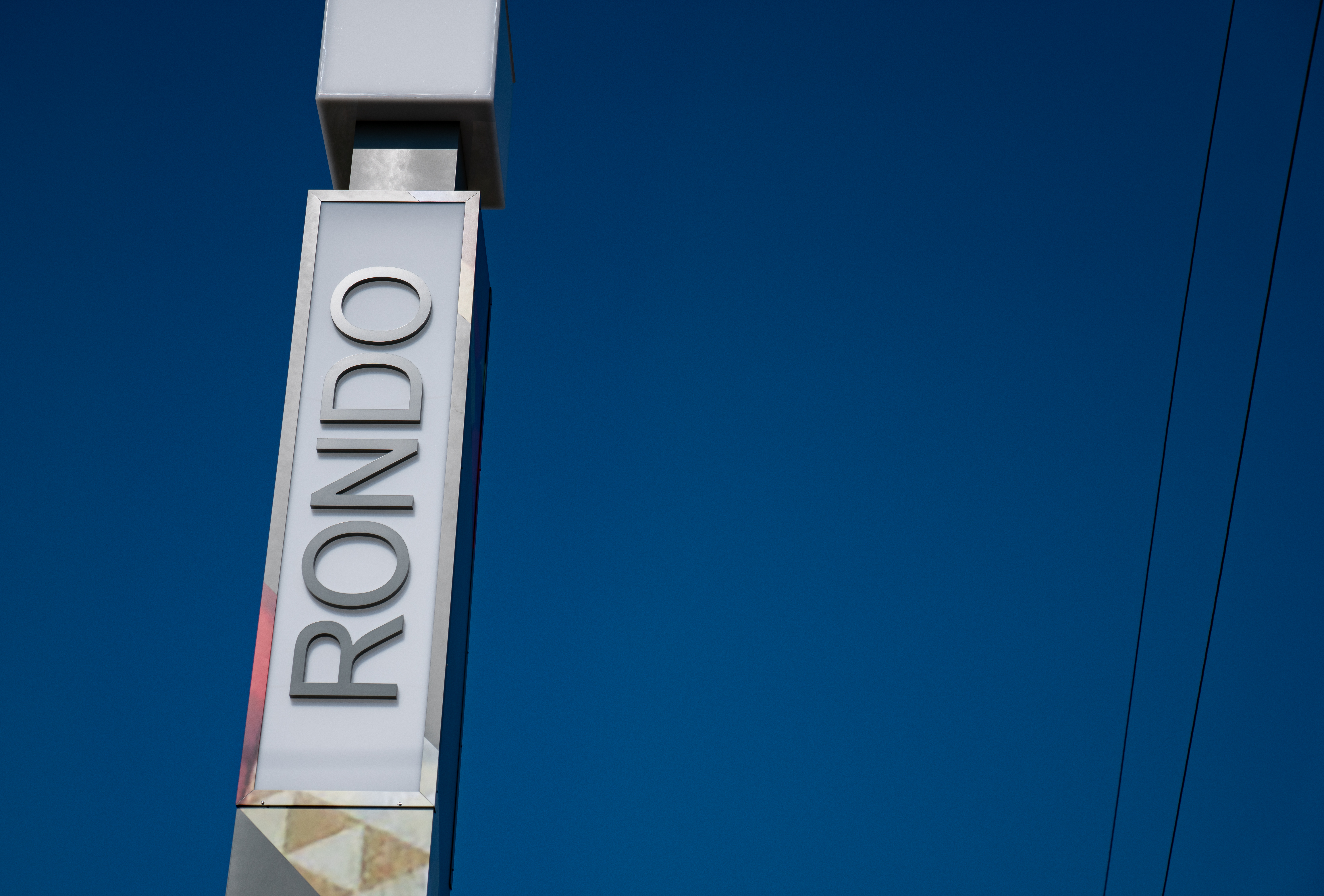 The Rondo Days Parade marches through the Rondo neighborhood of Saint Paul, Minnesota, on July 21, 2018. Photo: © 2018 Tony Webster ___ RONDO